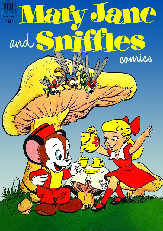 Mary Jane enjoys some quality time with her diminutive friend on the cover of Four Color Comics number 402. While relatively obscure by today's standards, Mary Jane and Sniffles were extremely popular with younger audiences of the 40s and 50s.